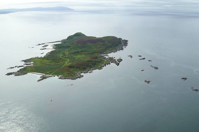 Cara Island, Inner Hebrides, Scotland from the Air Ariel shot of Cara Island from NR6444. The island is off Kintyre and Gigha